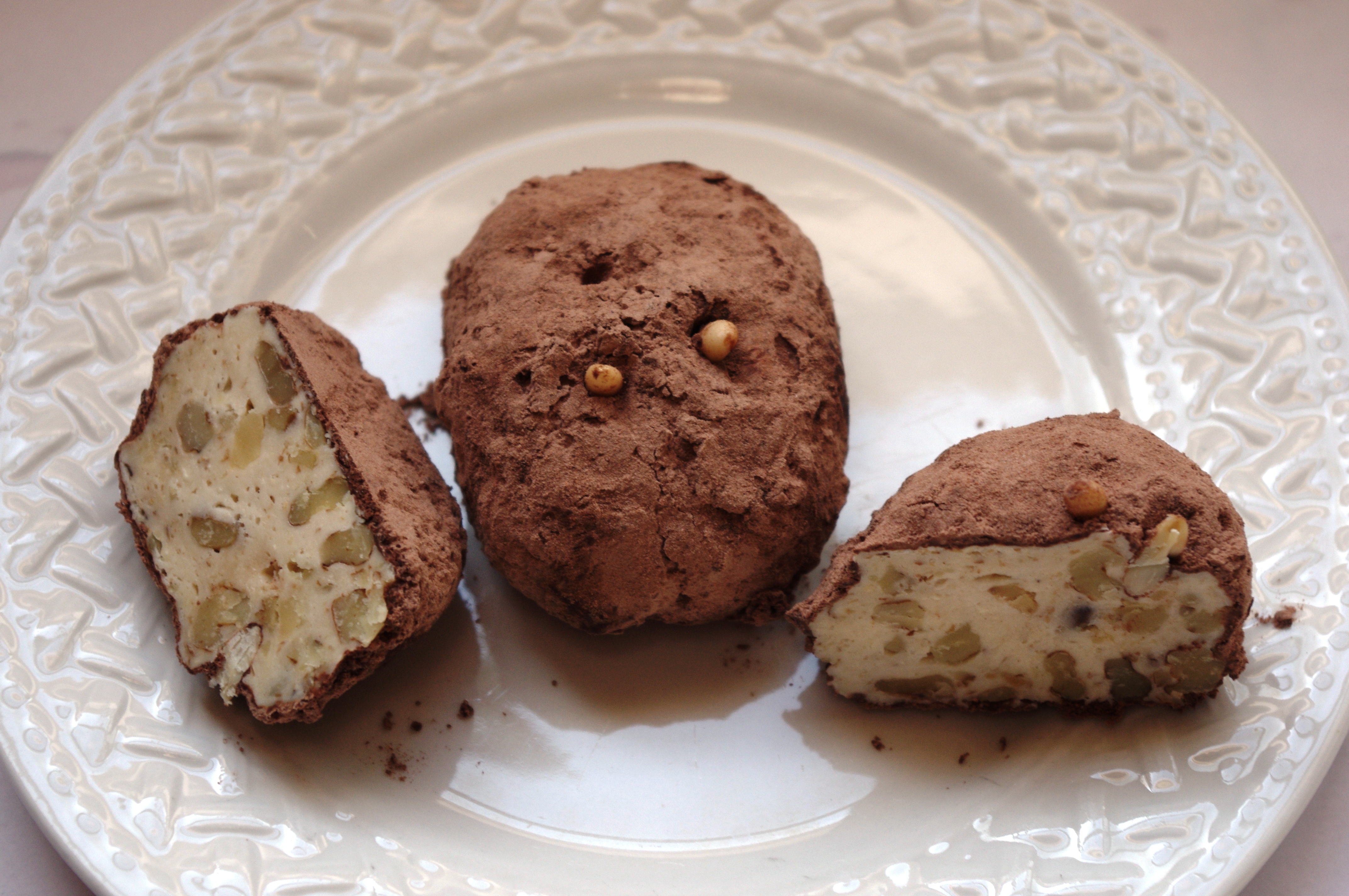 Irish potato candy by See's Candy Shops, Inc. South San Francisco, CA, USA, is a confection composed of a divinity (confectionery) and English walnut interior dusted with cocoa. The "eyes" on the surface are pine nuts.